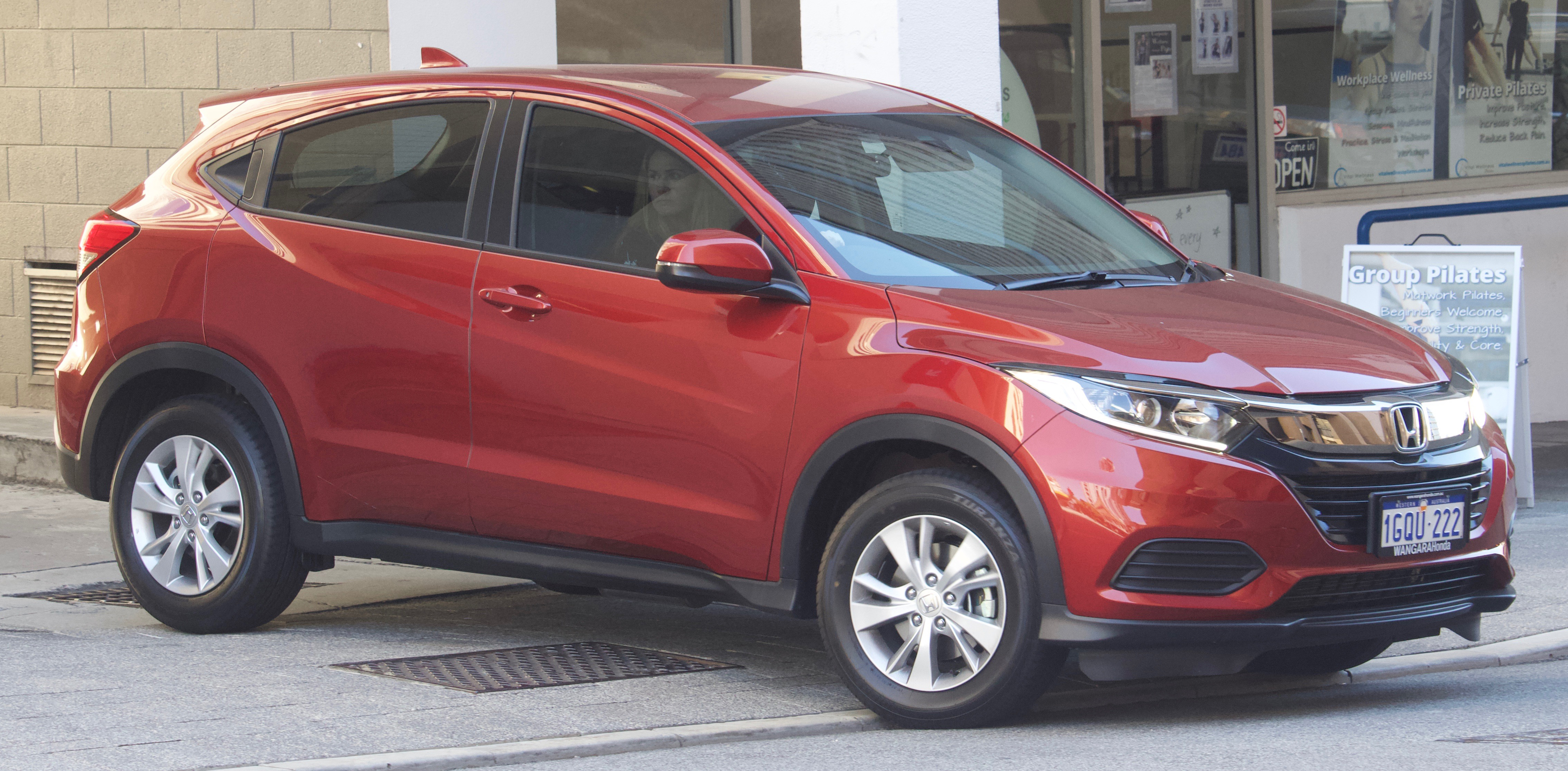 2018 Honda HR-V (MY18) VTi wagon. Photographed in Perth, Western Australia, Australia.